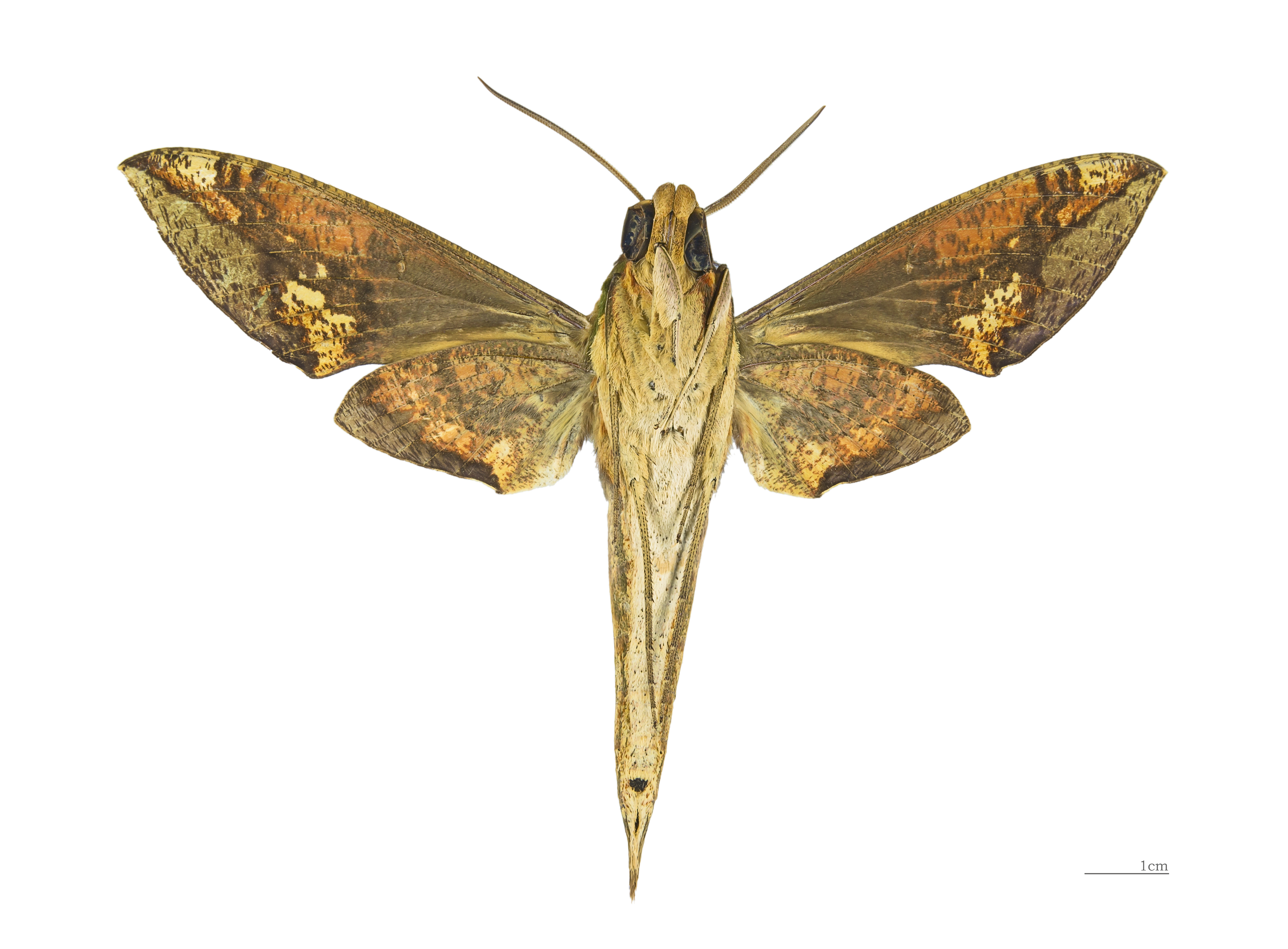 Xylophanes chiron nechus- △ Ventral side